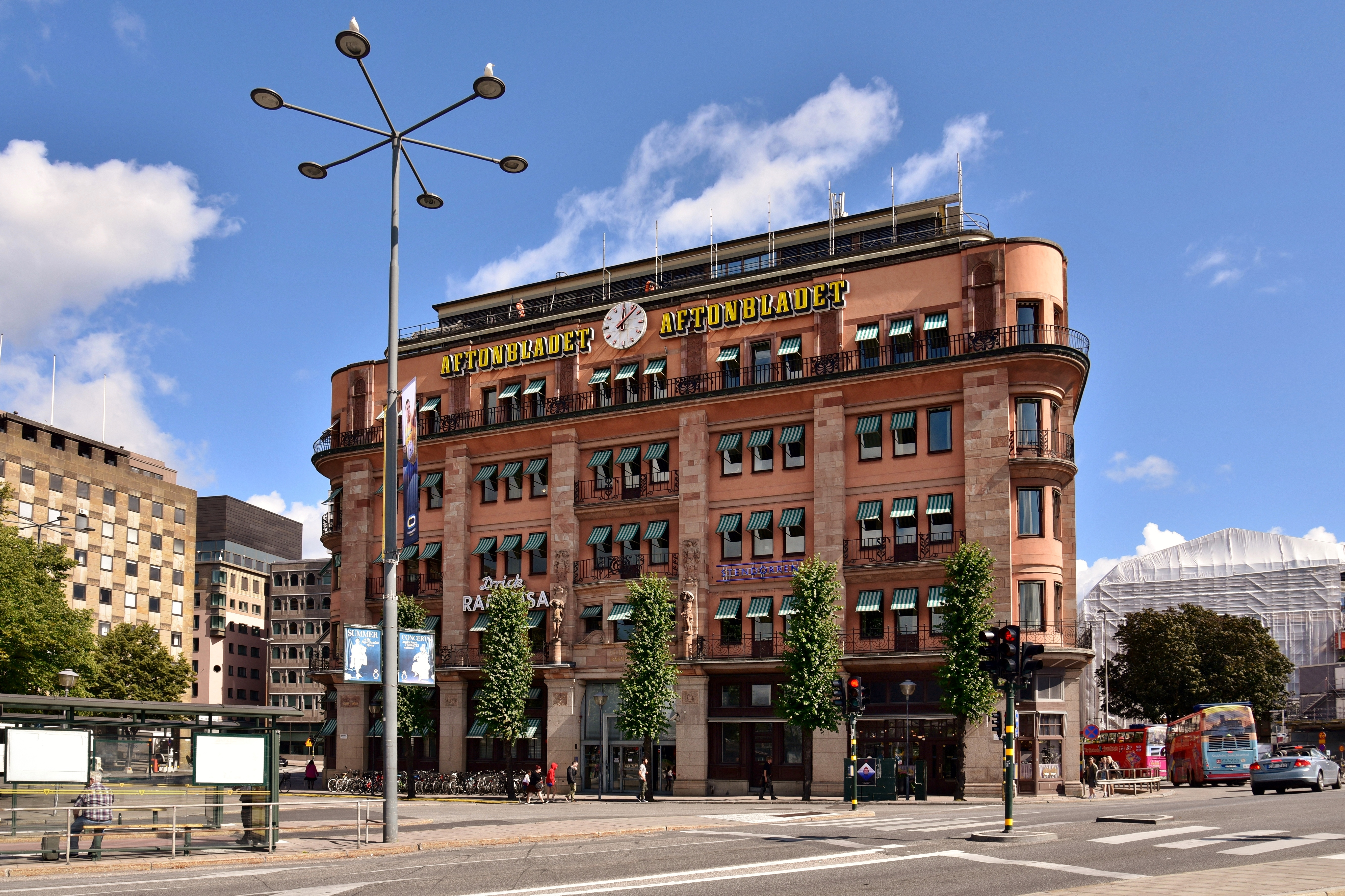 View of Centralpalatset, an historic building in central Stockholm